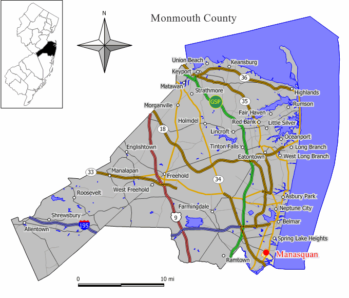 Source: Jim Irwin